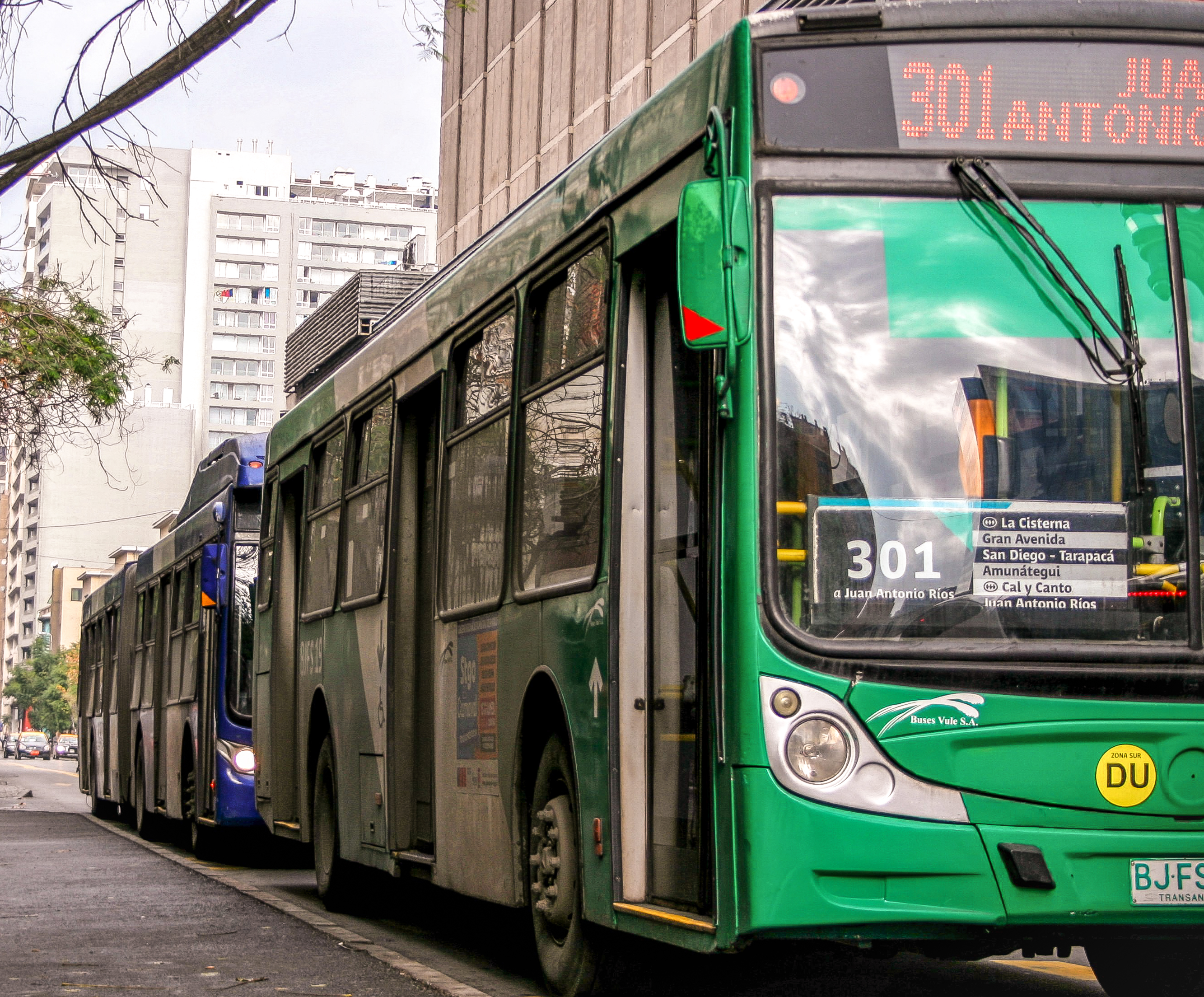 301 bus, operated by Buses Vule S.A at Lord Cochrane st.